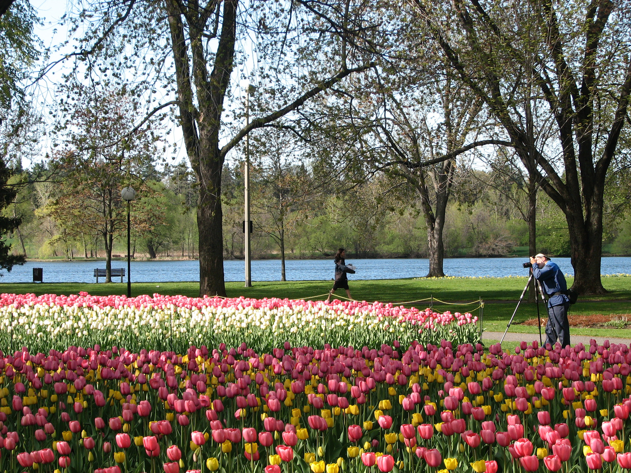 my own trips